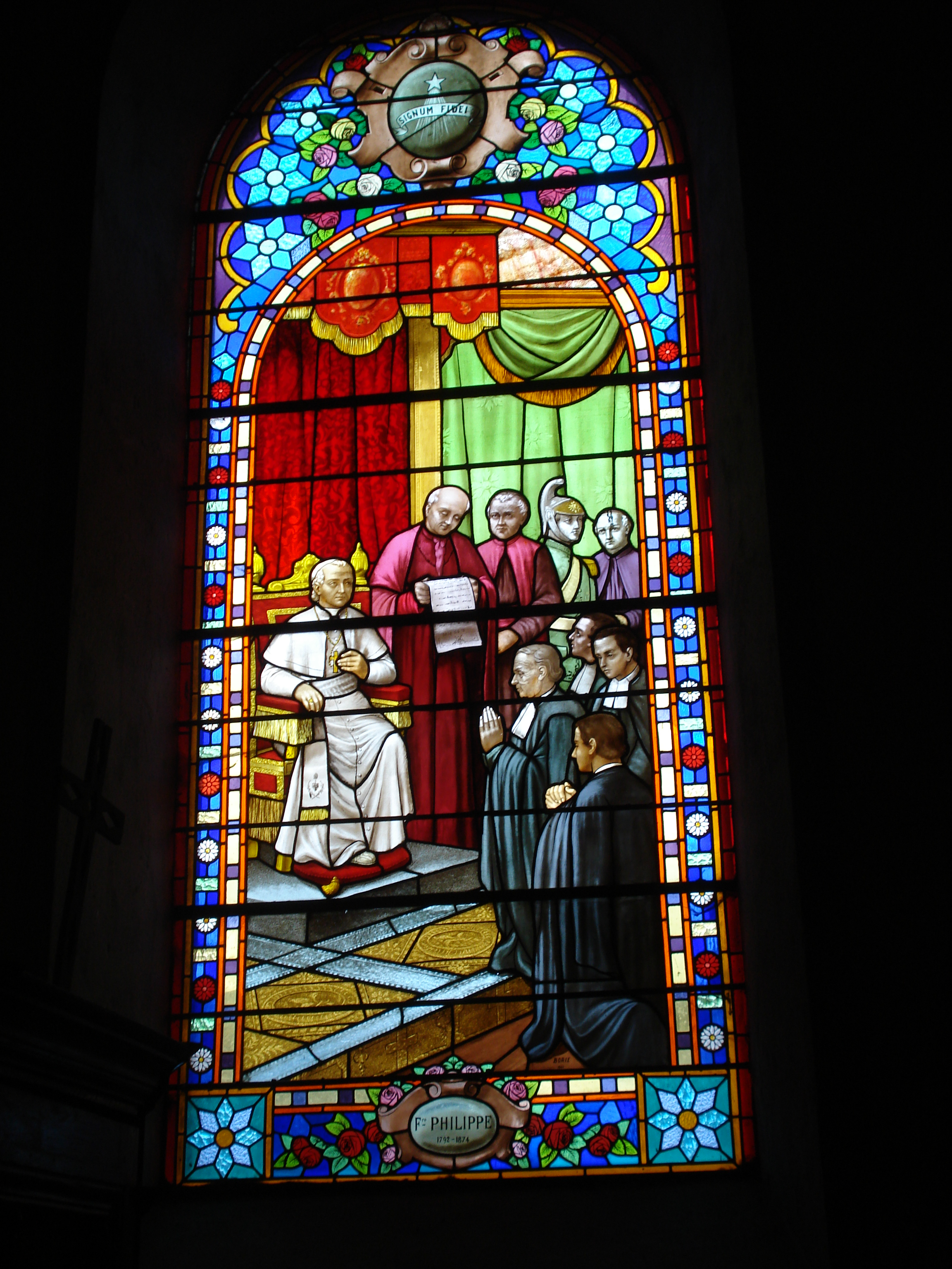 Stained glass windows church of Apinac (Loire, Fr): nr 7 out of 10